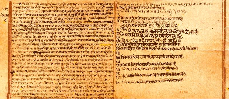 Maryada Patra or Letter of Conduct written by Jain Svetambar Terapanth, first Spiritual Head Acharya Bhiksu (1726-1803) in Rajasthani language nearly 200 years ago